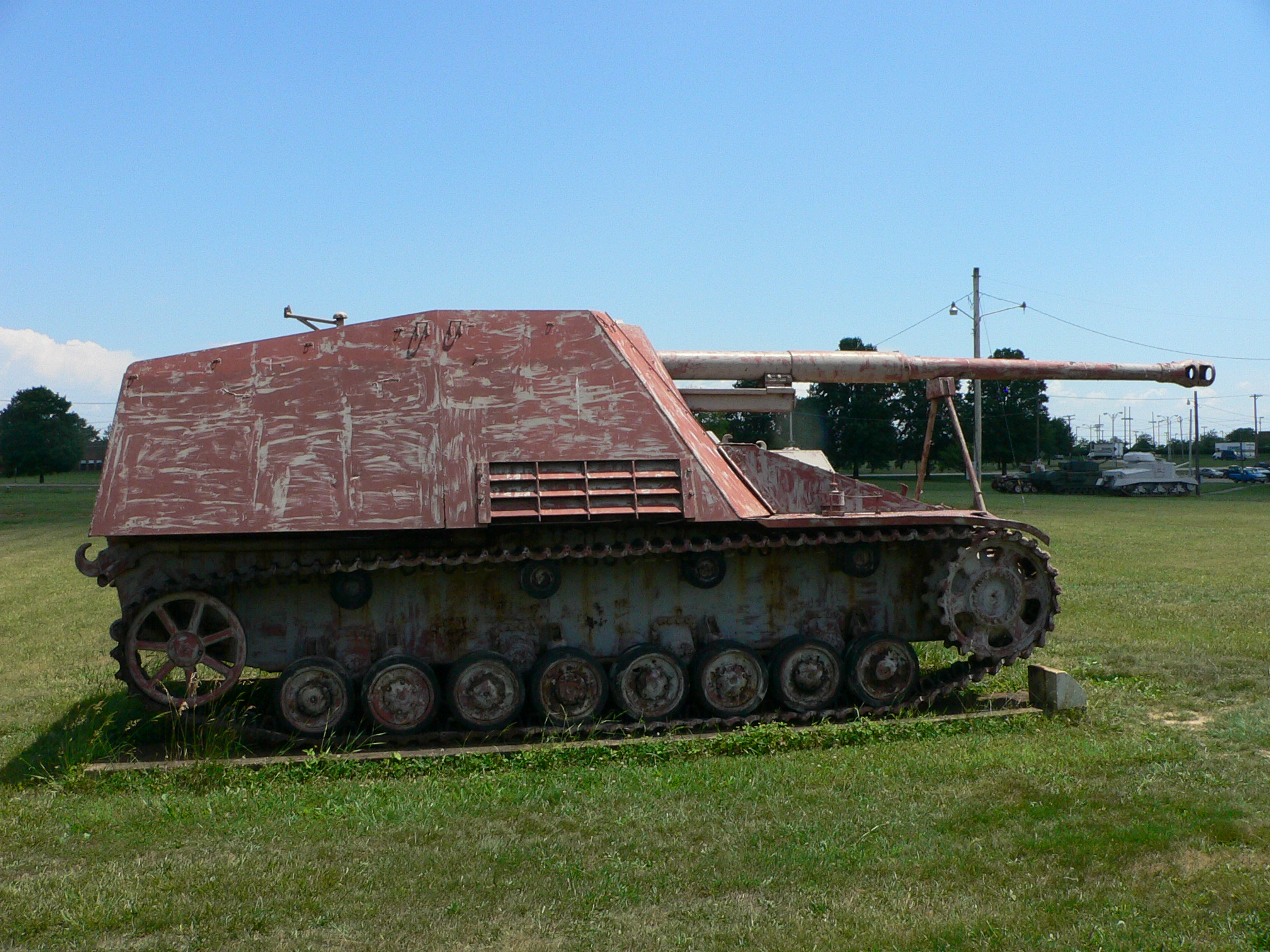 Picture taken by myself, Mark Pellegrini, at the United States Army Ordnance Museum (Aberdeen Proving Ground, MD) on June 12, 2007.